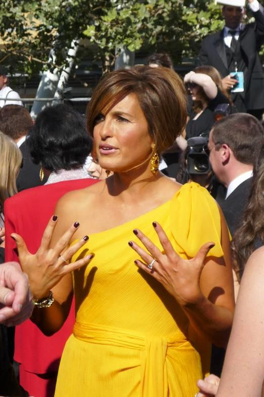 Actress Mariska Hargitay at 2008 Emmy Awards.